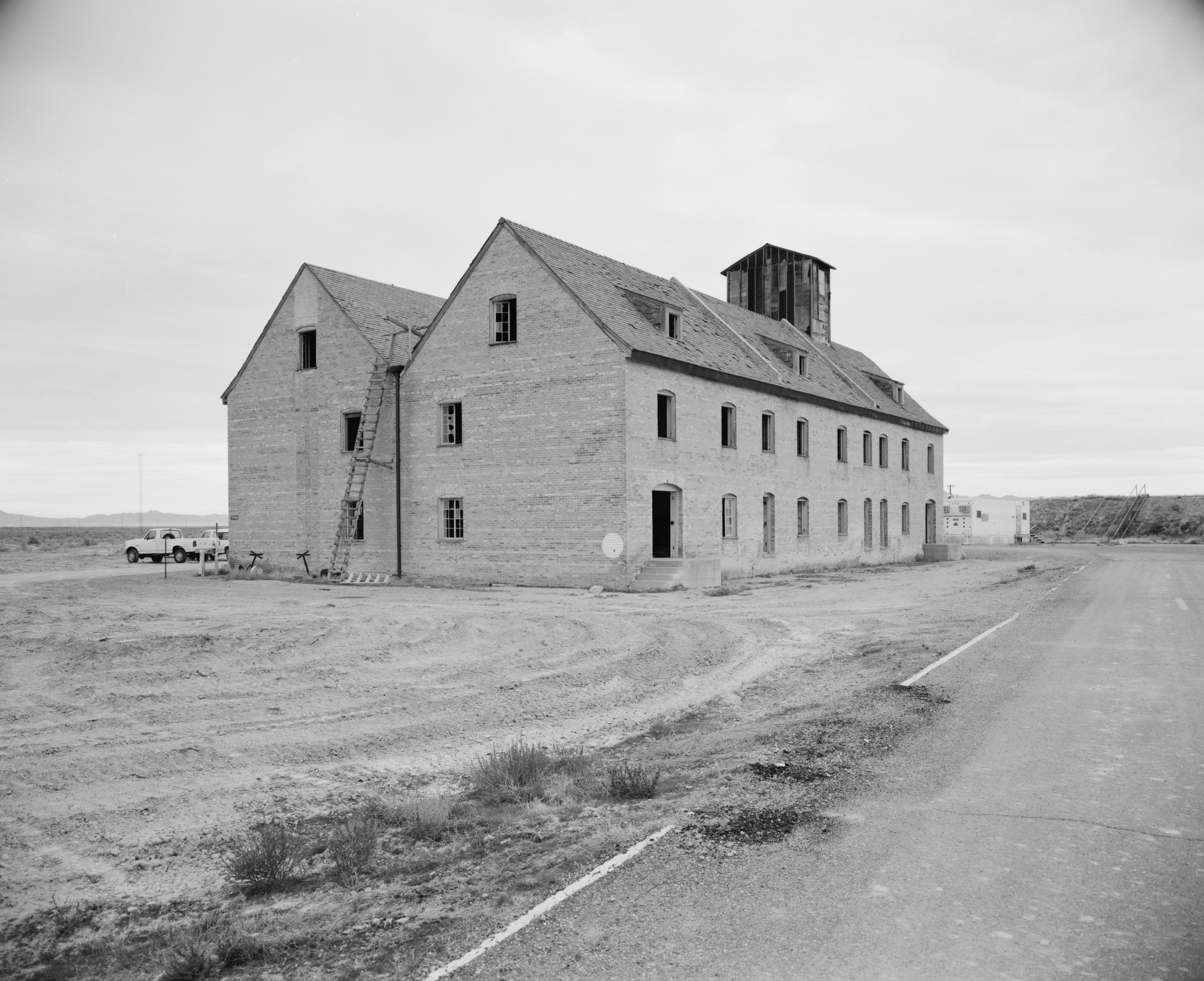 OBLIQUE VIEW OFGERMAN VILLAGE LOOKING SOUTH. - Dugway Proving Ground, German-Japanese Village, German Village, South of Stark Road, in WWII Incendiary Test Area, Dugway, Tooele County, UT. The village was built during 1943 to perfect bombing of German residential areas by the USAF using incendiaries. The construction on the roof was added post-war.